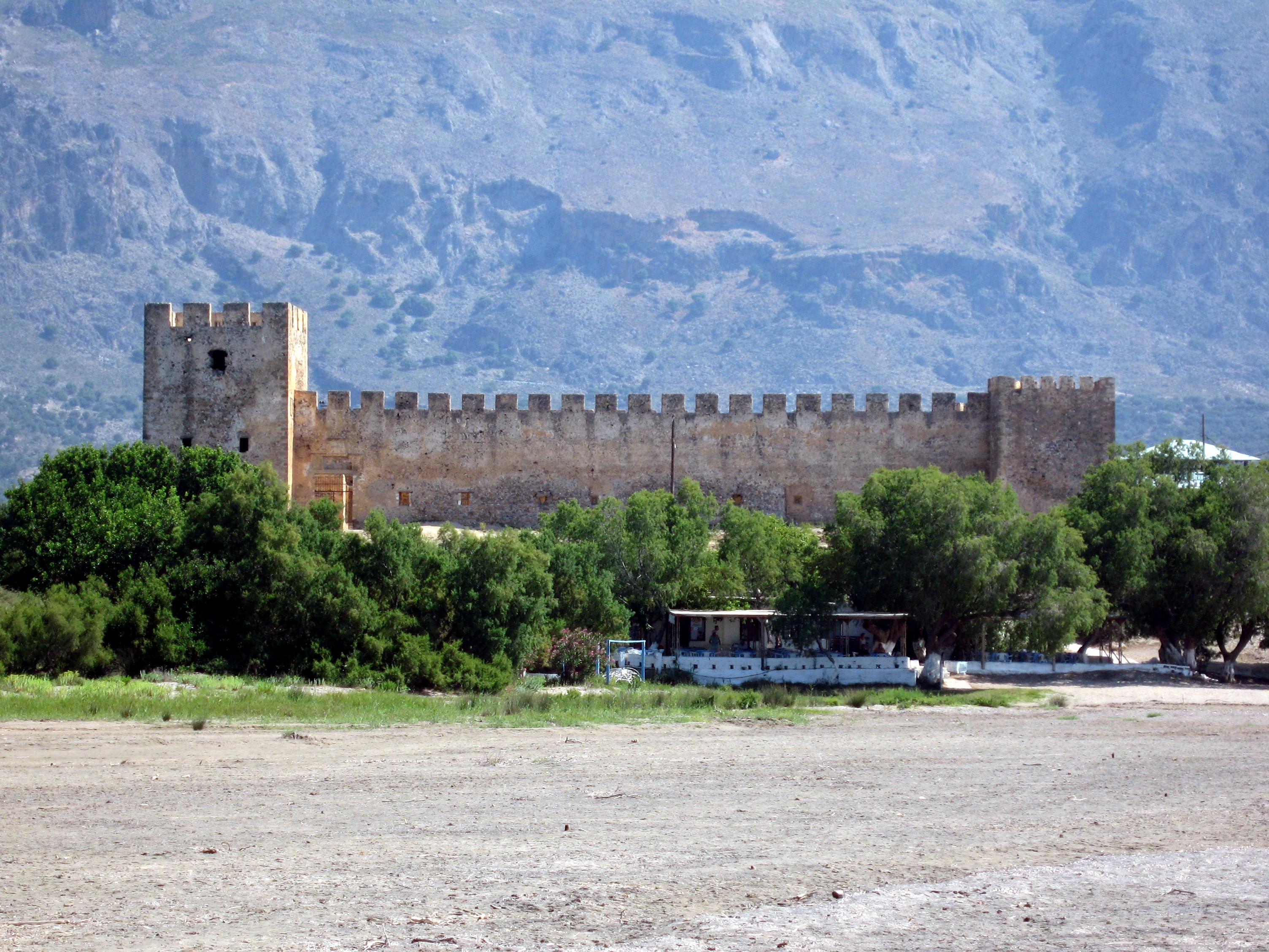 Frangokastello, Sfakia, Nomos Chania, Crete, Greece